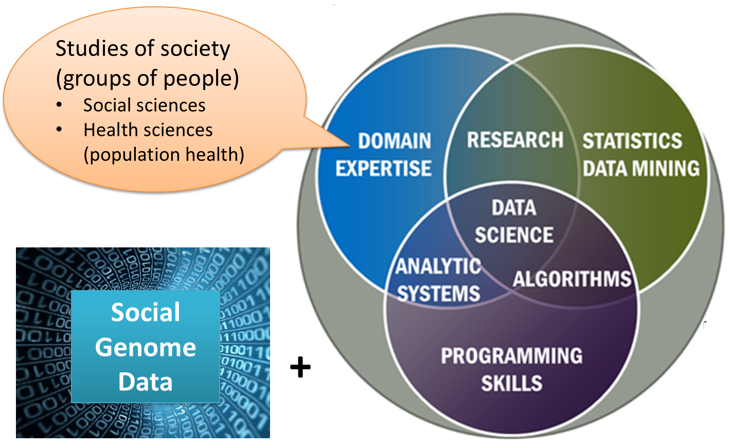 Population Informatics. Adapted from the Data Science venn diagram (cite: NIST big data workgroup)